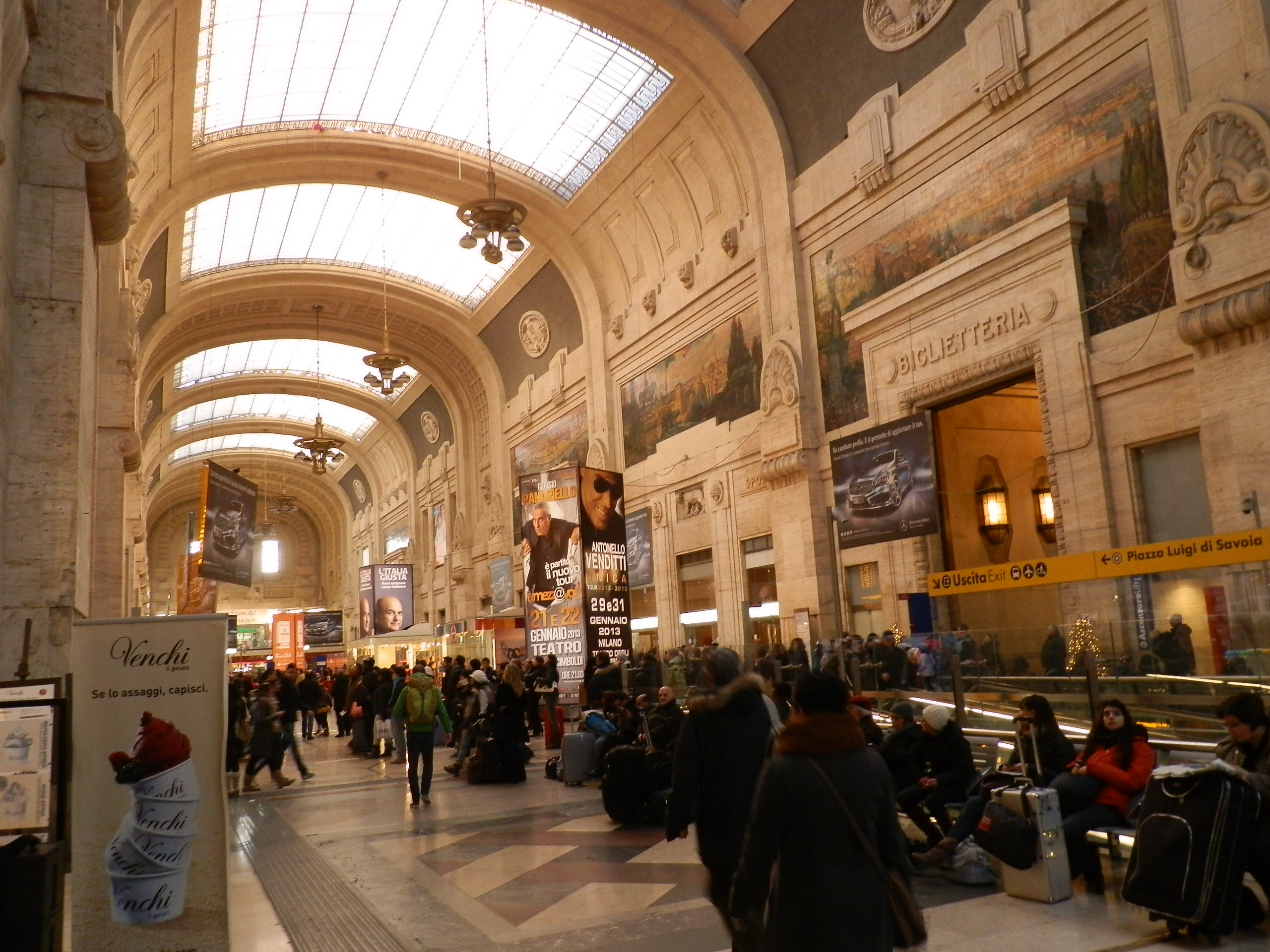 Milan:Main railway station